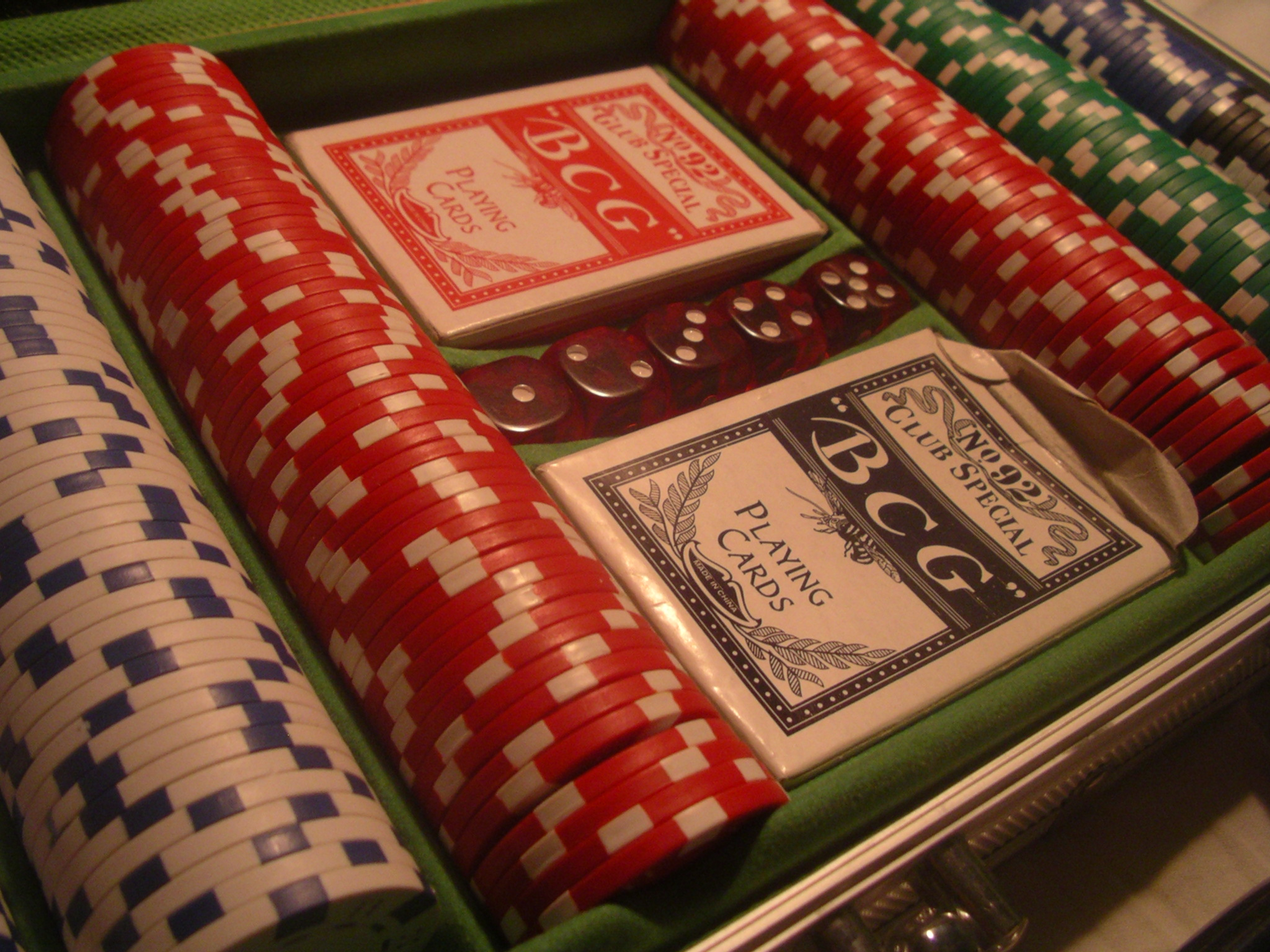 Poker set, containing poker chips of various colors, five red dice, and two decks of BCG brand playing cards.